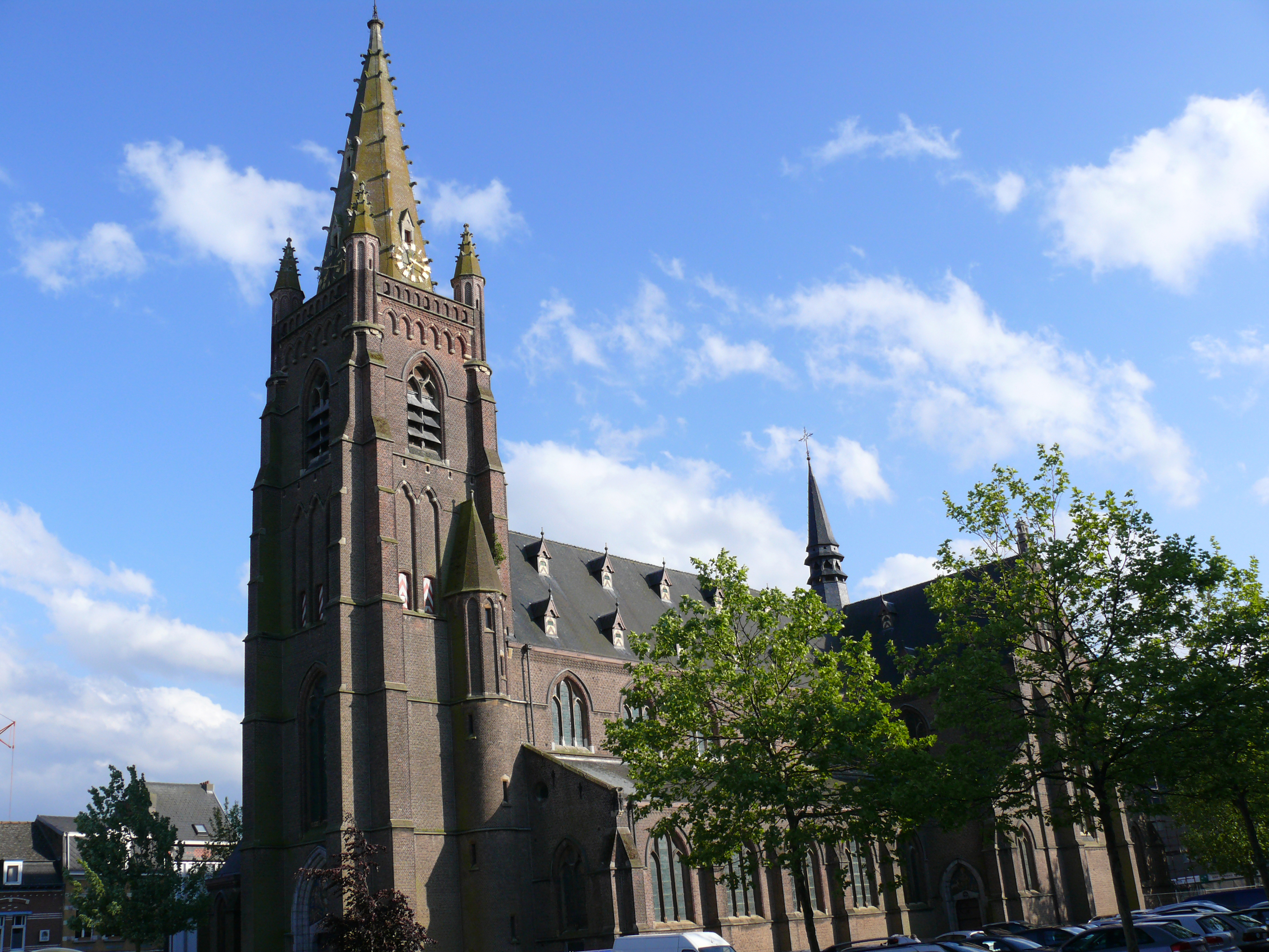 The church Sint-Egidius extra muros is, since 1907, the church of Sint-Gillis-bij-Dendermonde. It is a Neo-Gothic Church with a monumental spire.